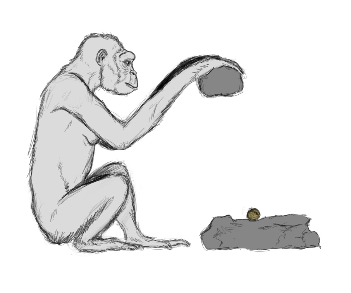 Illustration of Ardipithecus ramidus female cracking nuts with an anvil and hammer